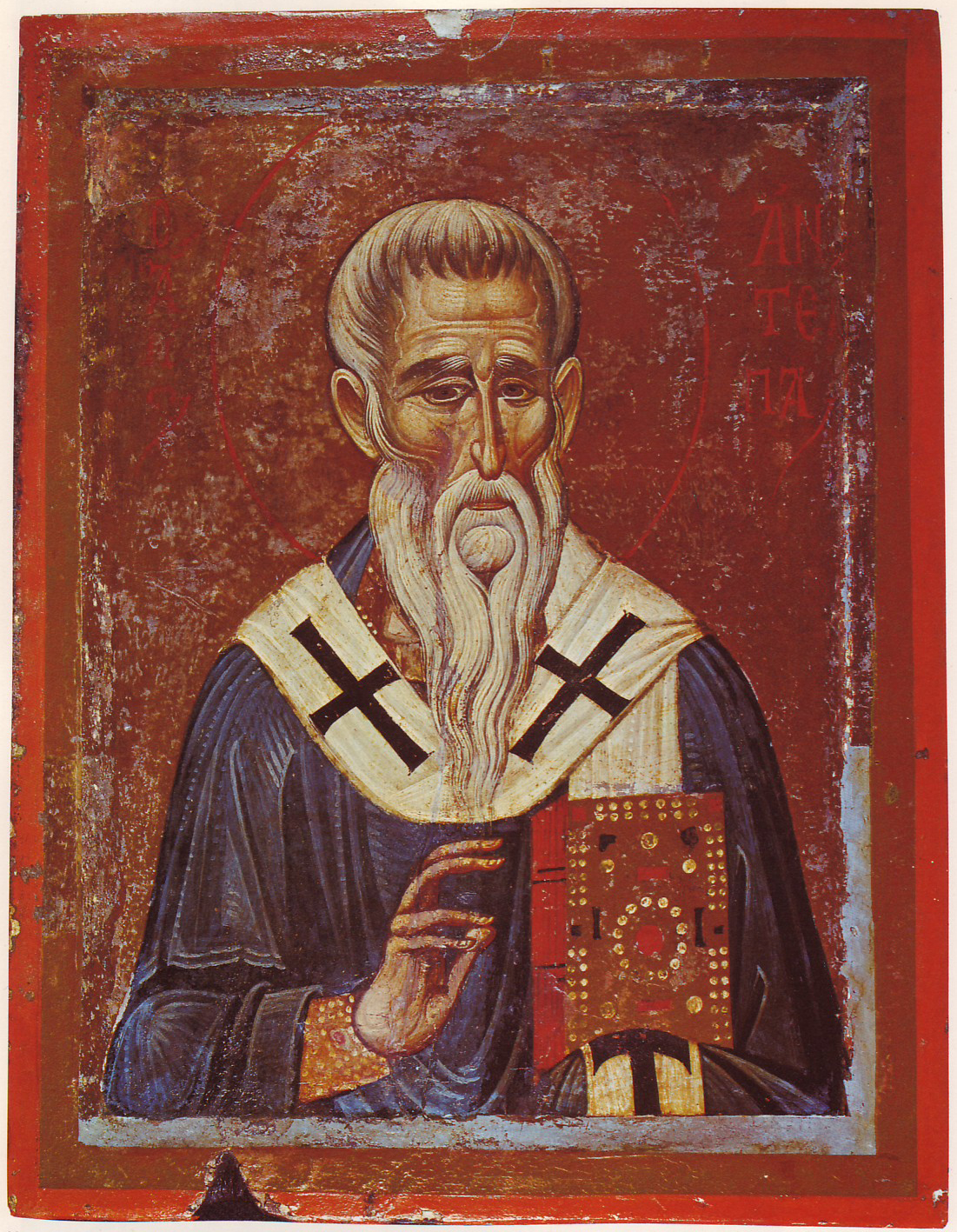 Half-length portrait of Saint Antipas of Pergamum. Icon carried out in a rather occidential, possibly venetian style by a crusading artist (?). Second half of 13th century. 58.2 x 44.9 cm